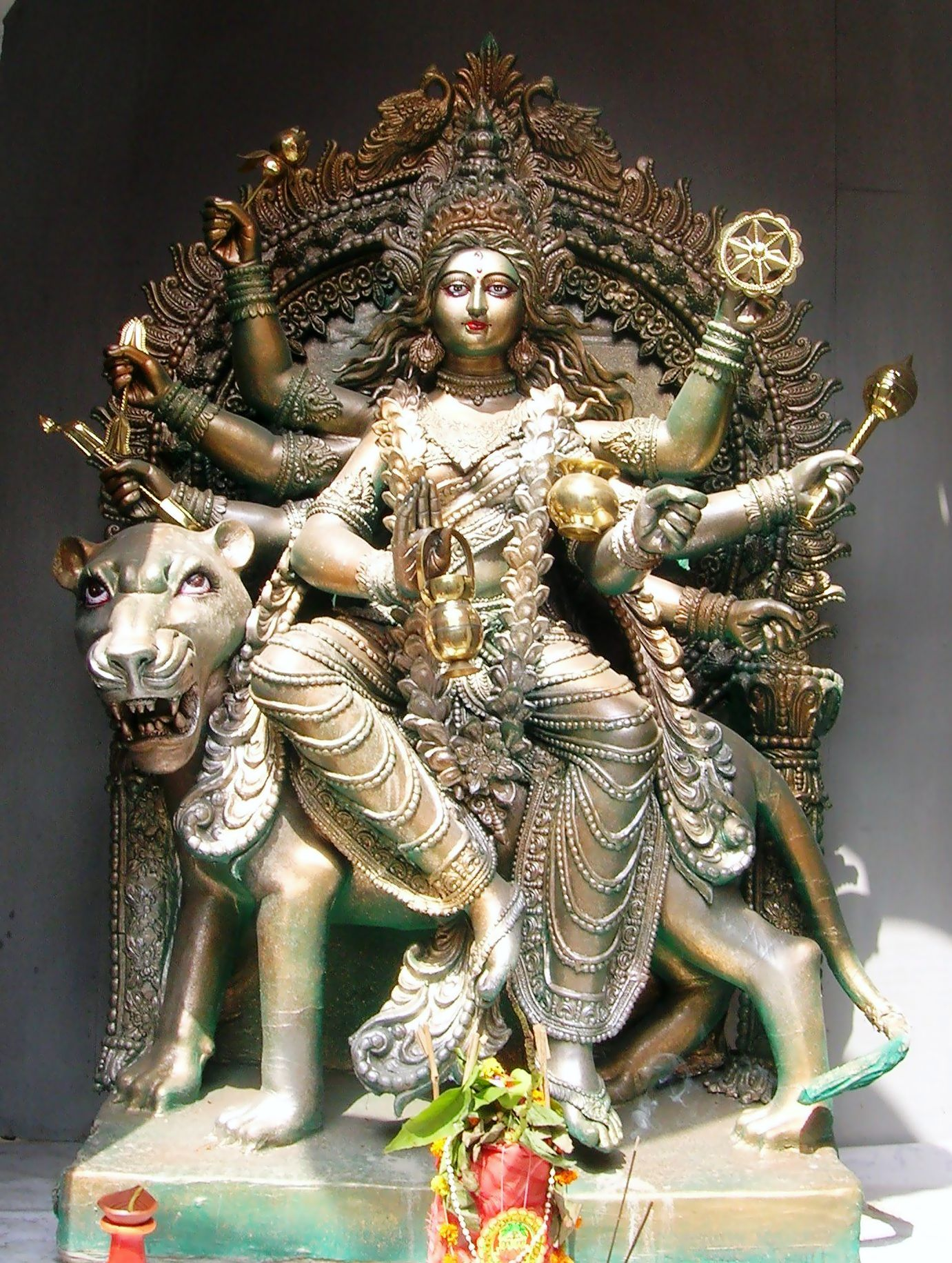 Devi Kushmanda, Sanghasri, Kalighat, Kolkata, 2010.